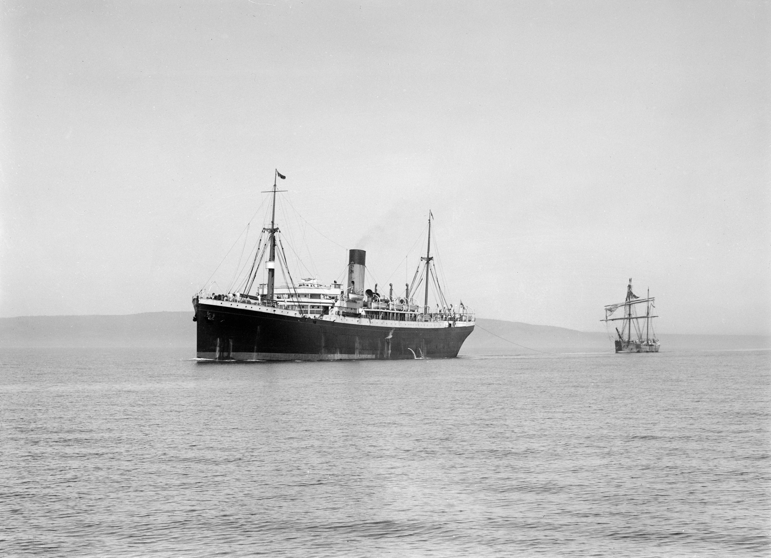 The „SS Zealandic“ was awarded a £6,350 sum following the successful rescue of disabled sailing vessel „Garthsnaid“ in 1923, towing it to safety between Cape Howe and Melbourne.